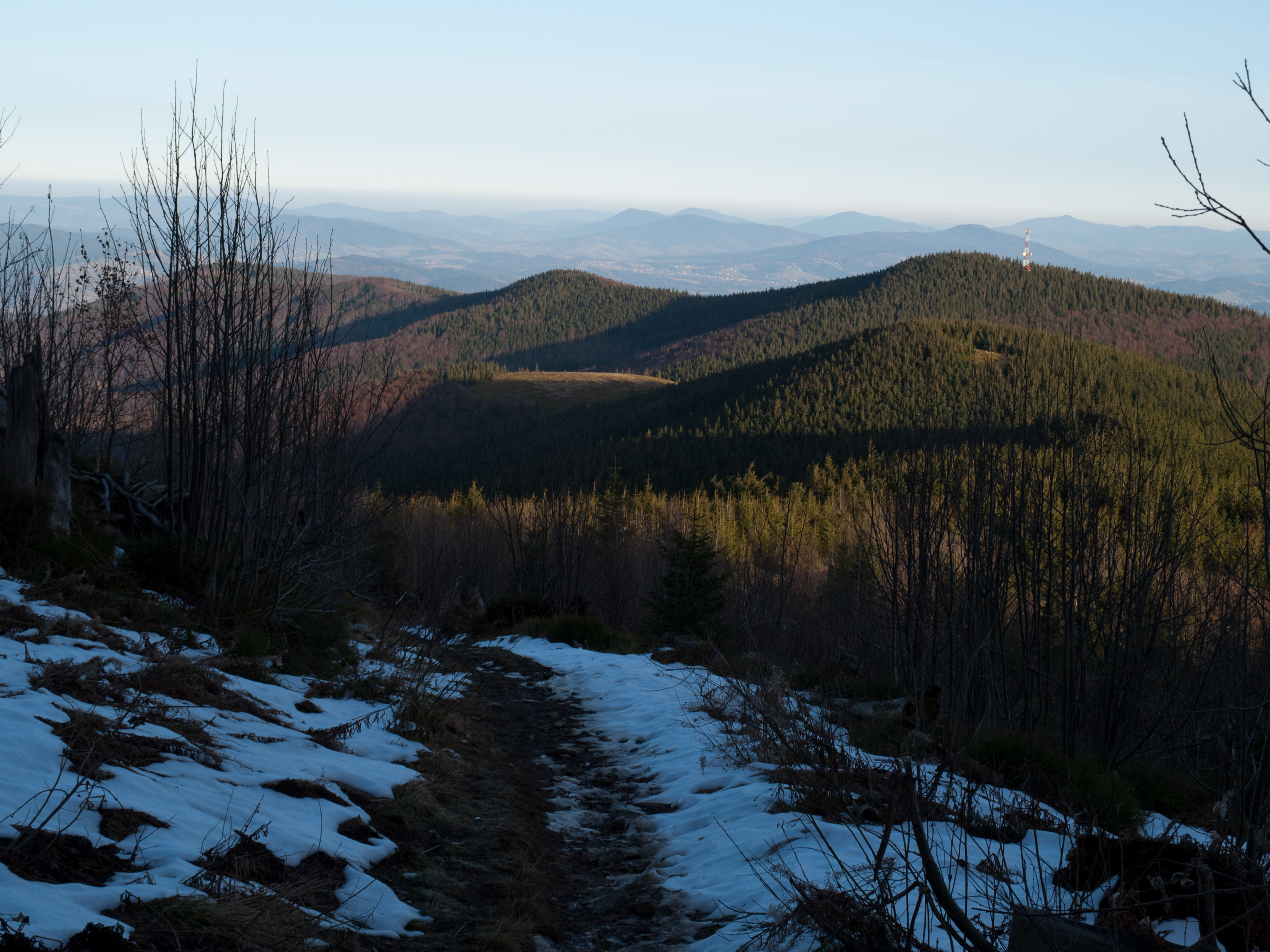 Okrąglica (with telecommunication mast) – view from the ridge below the summit of Polica.